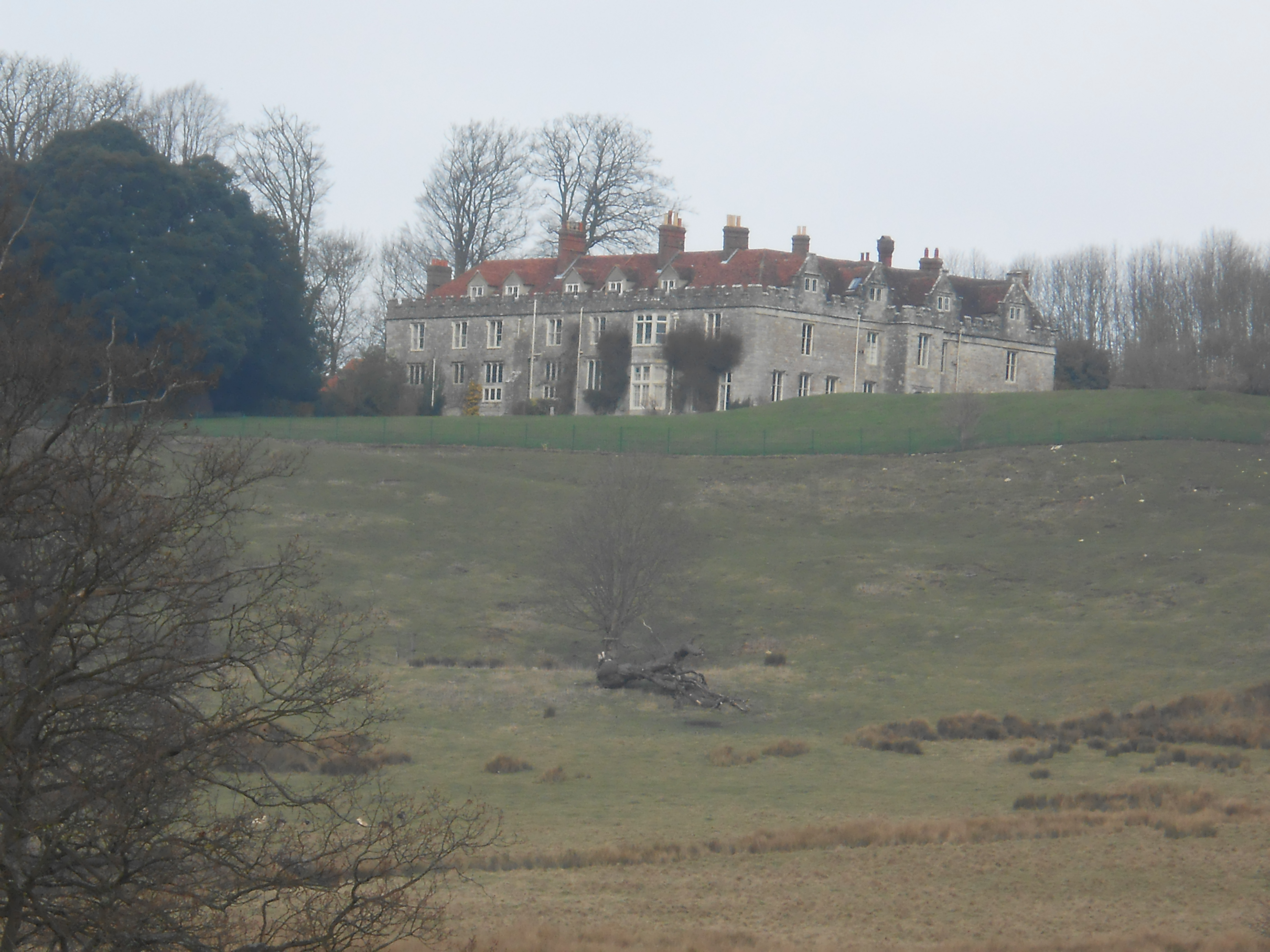 Boughton Monchelsea Place, Kent